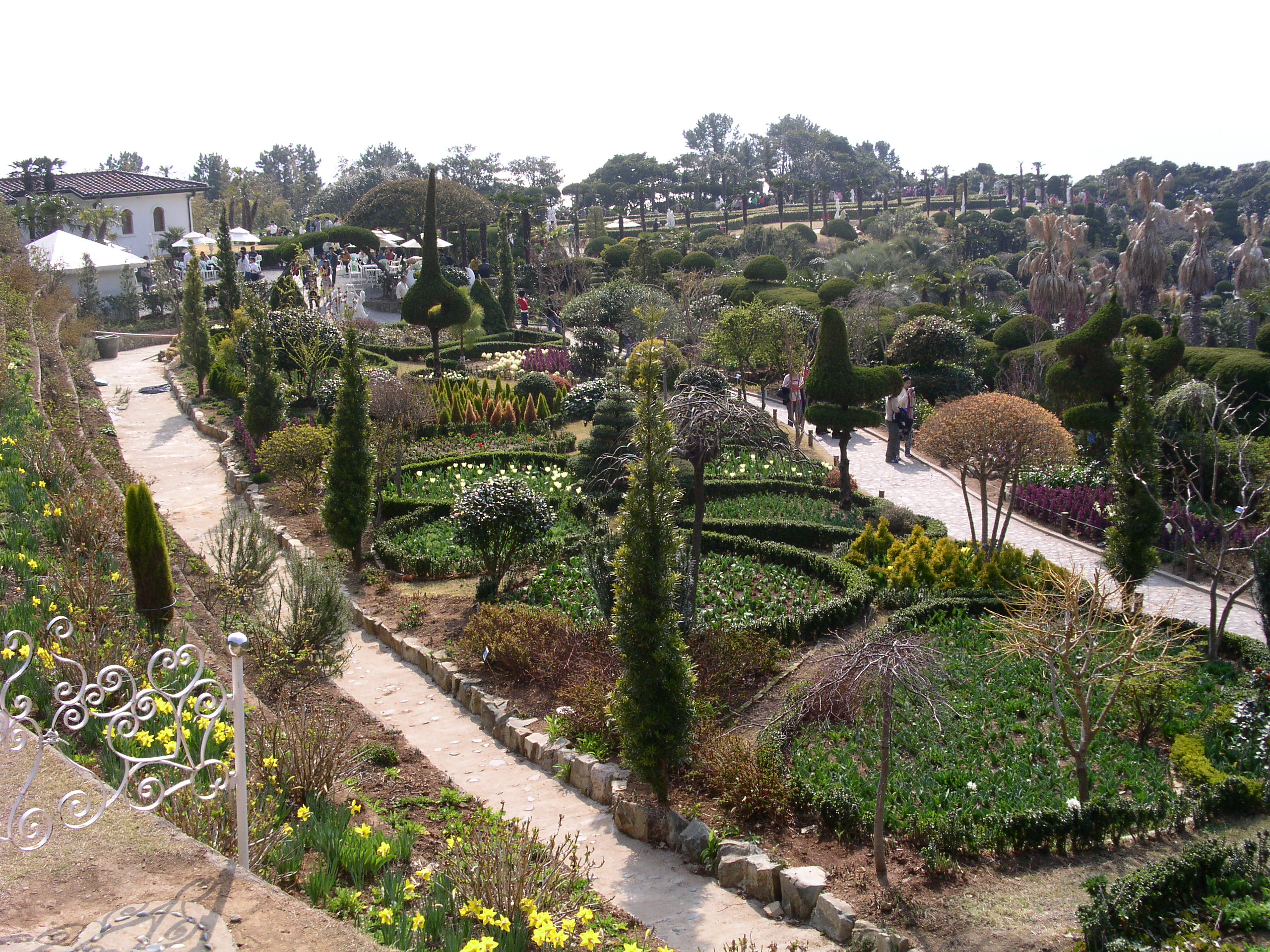 Photograph of botanical garden at Oedo taken from stairs. Oedo is an island in South Korea near Busan.